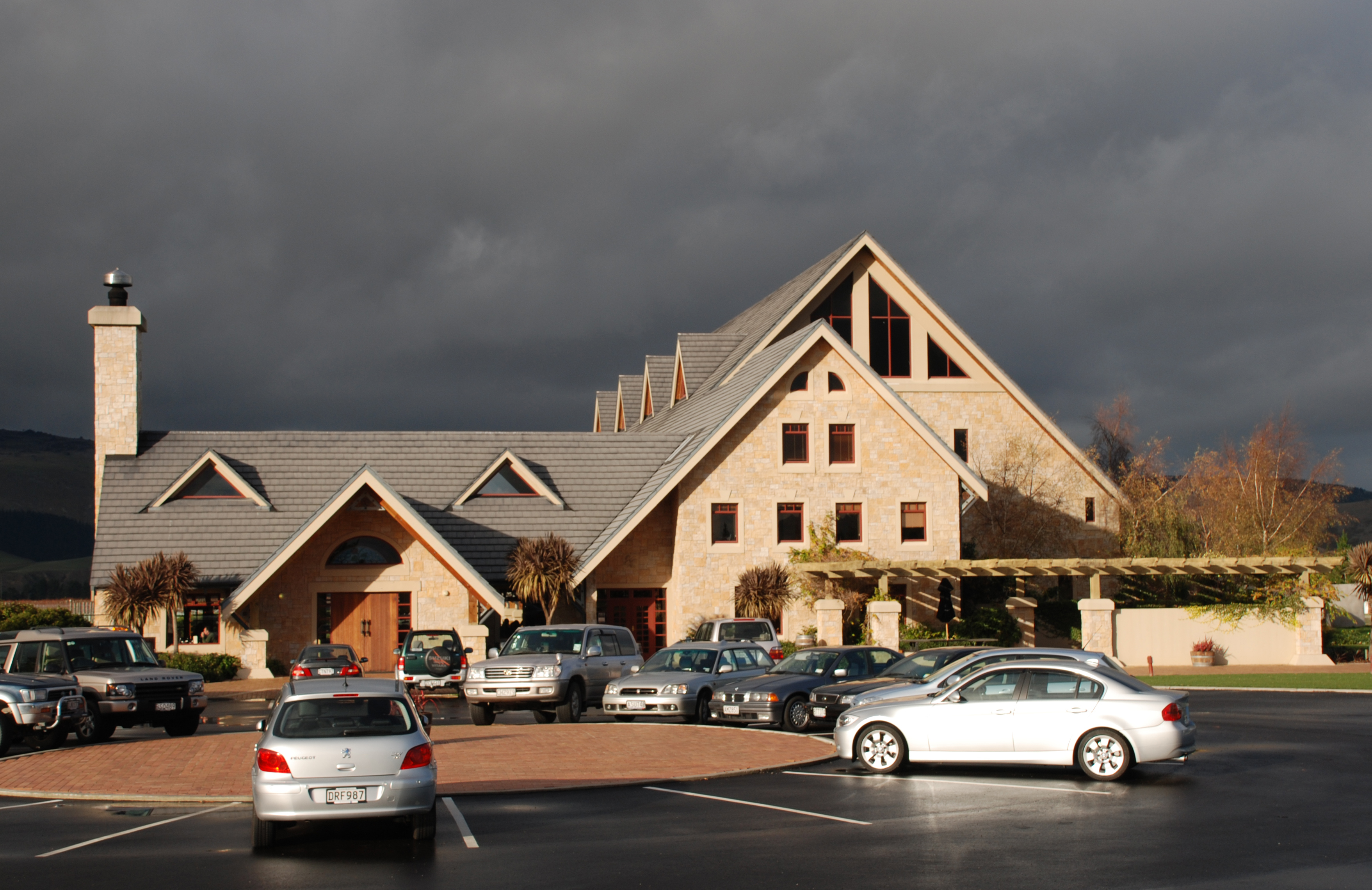 Mud House winery and restaurant at Waipara, New Zealand.